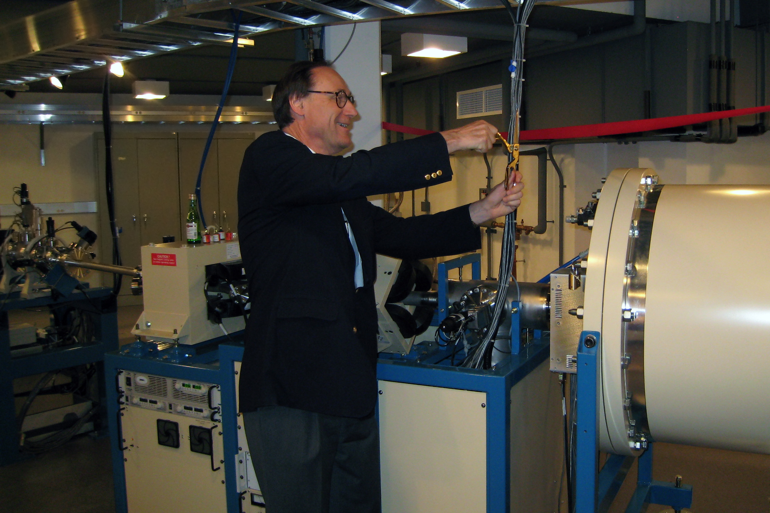 Dr. Christopher Dahl, President of SUNY Geneseo, at the ribbon-cutting ceremony for the college's new 1.7 MeV tandem Pelletron particle accelerator.